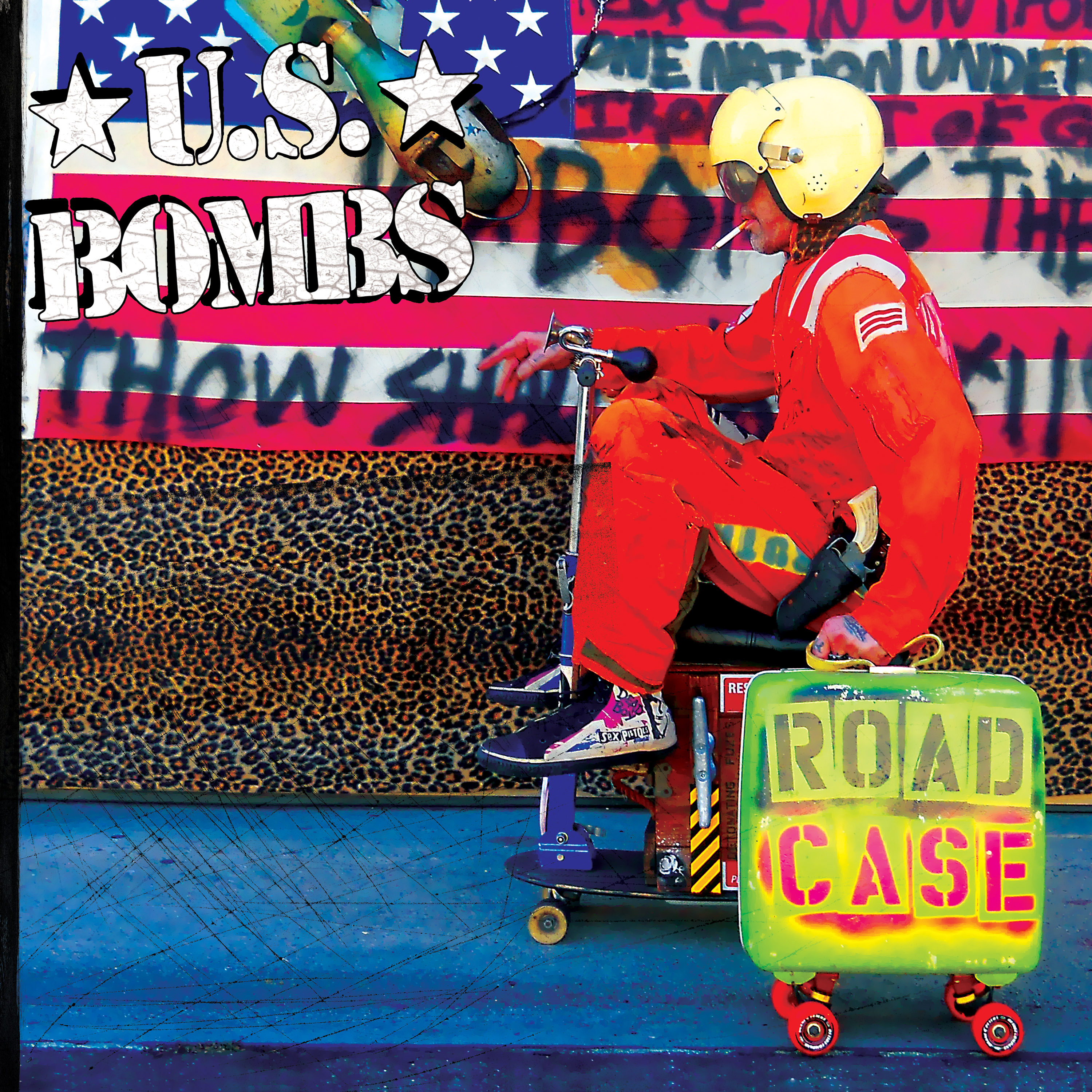 US Bombs Roadcase